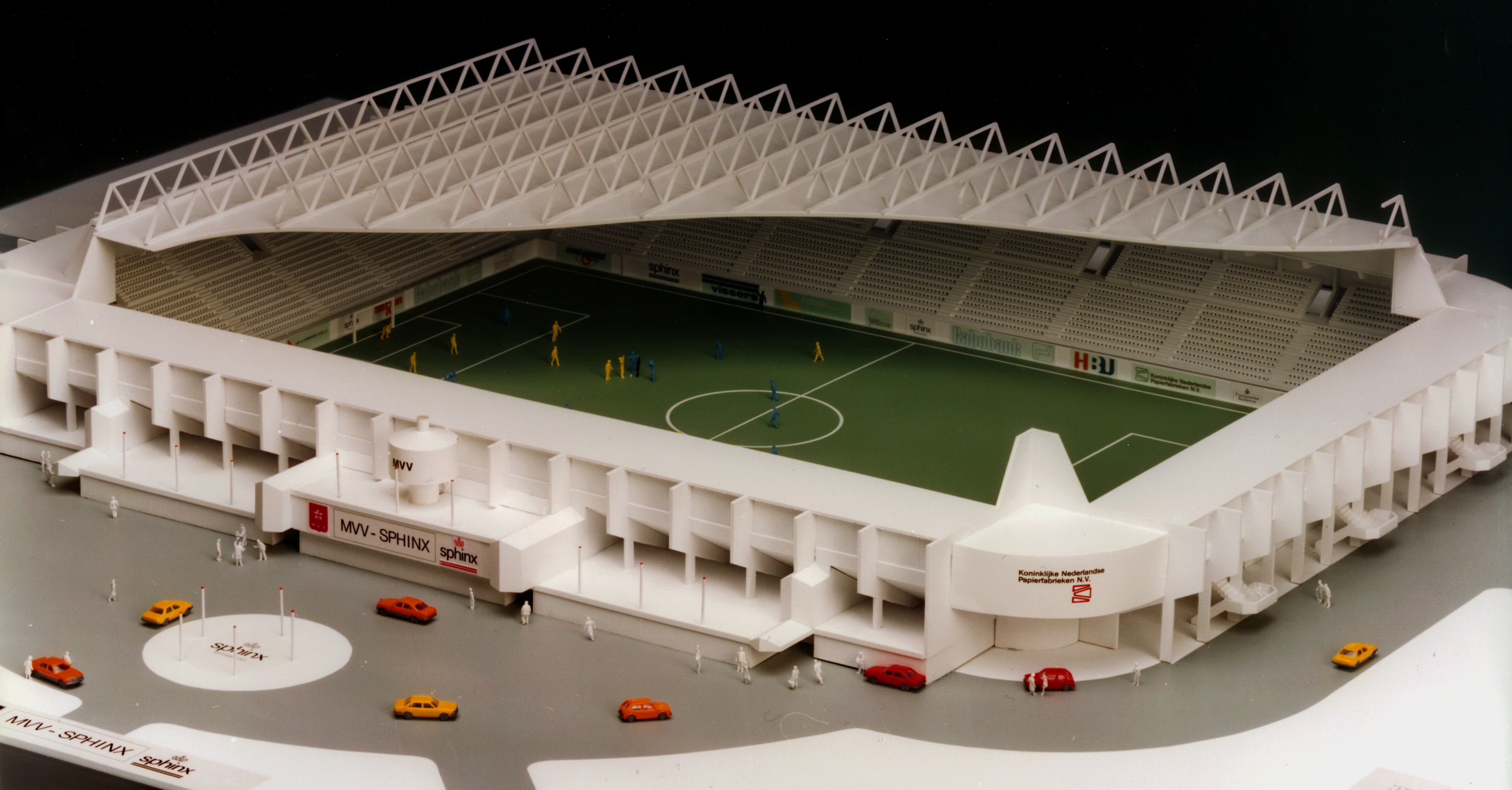 Een niet-gerealiseerde maquette van het Geusselstadion in Maastricht, ca. 1980-90.